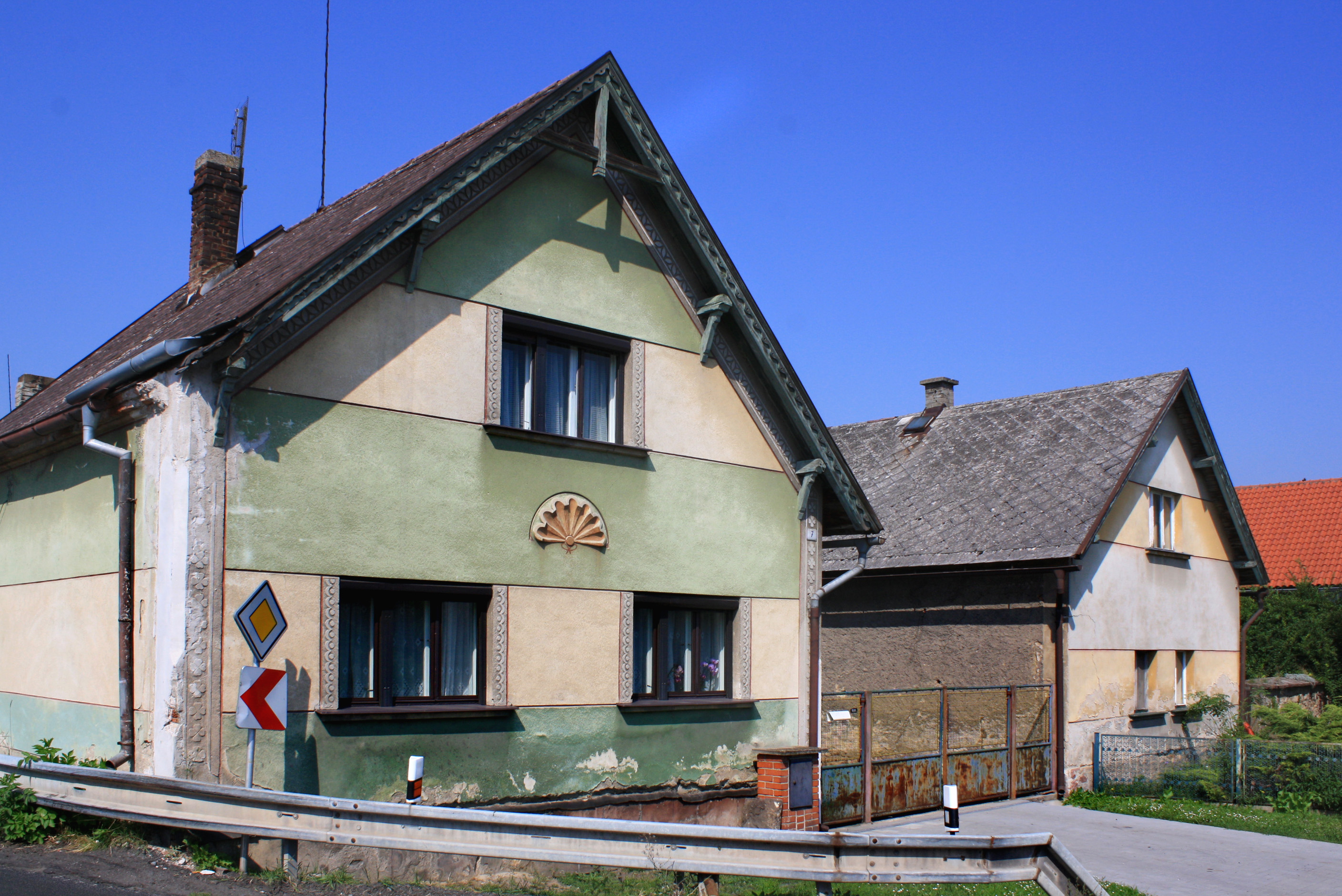 Lower part of Jizerní Vtelno, Czech Republic